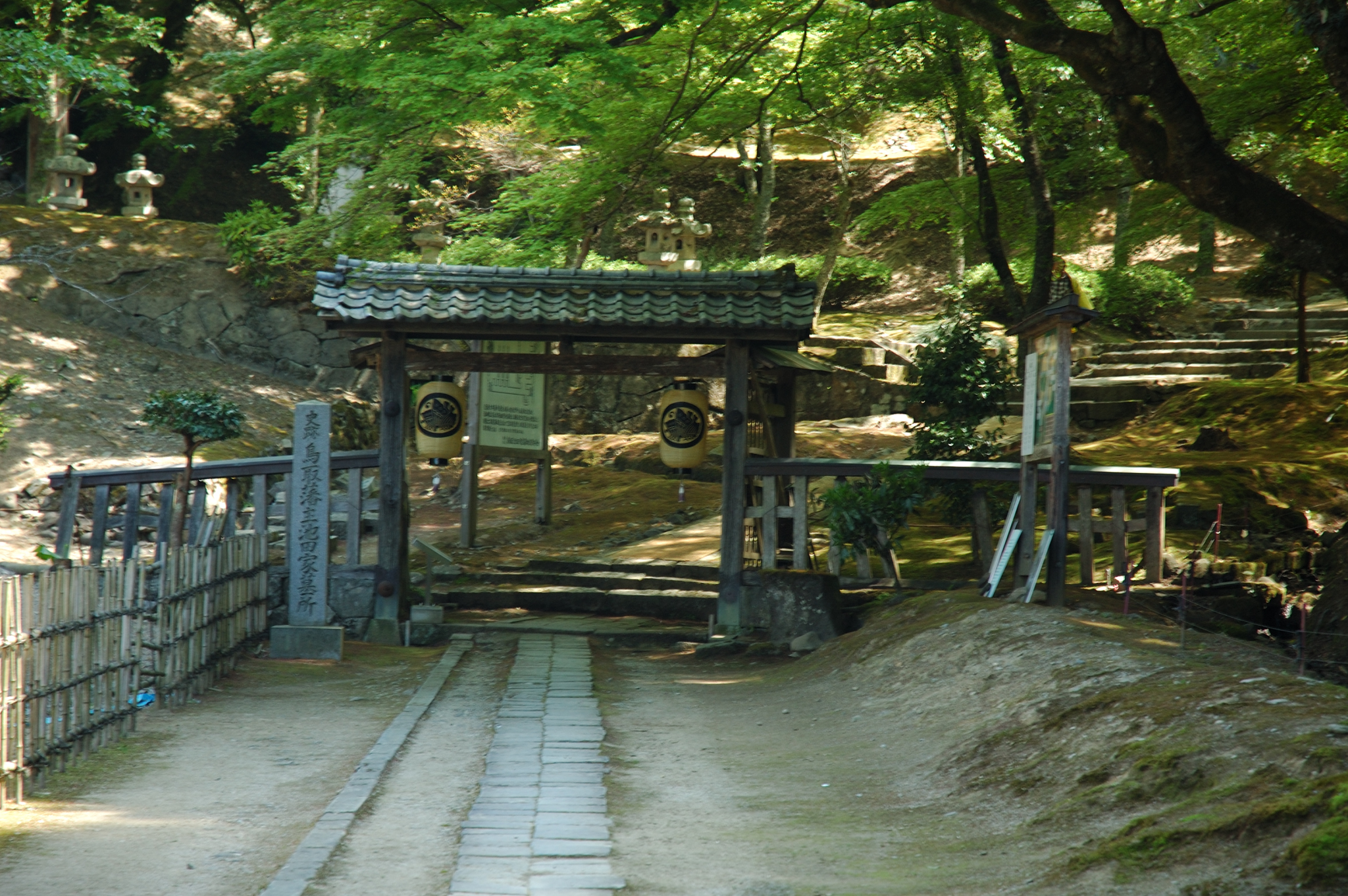 enterance of graveyard